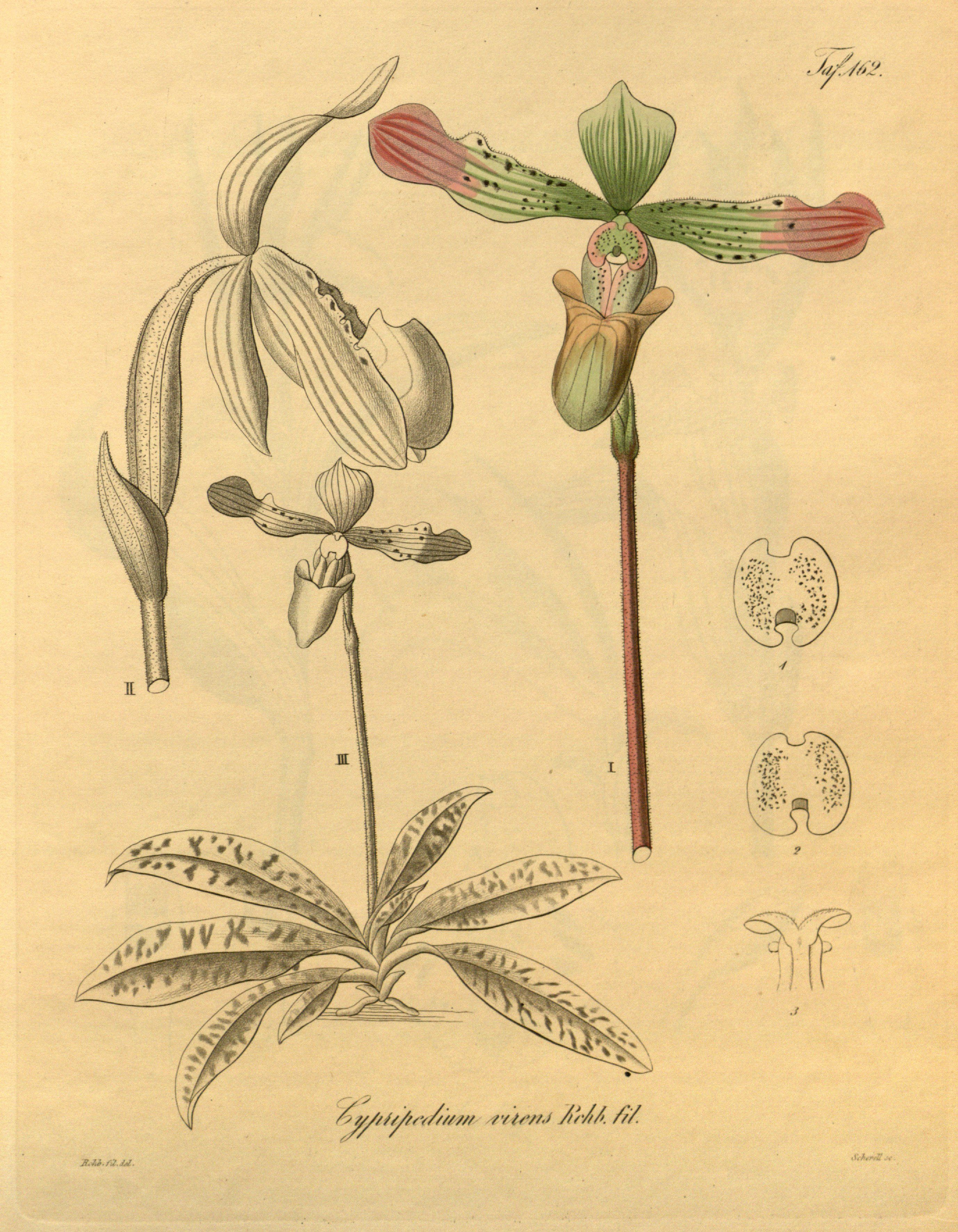 Illustration of Paphiopedilum javanicum (as syn. Cypripedium virens)